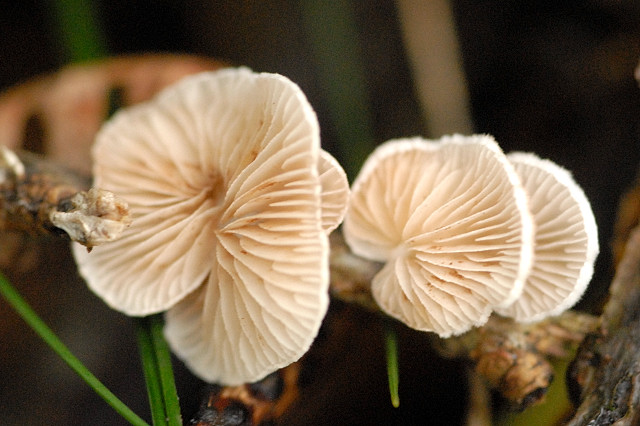 Crepidotus spec. from Commanster, Belgium. The determination of the species shown in this picture has been verified.